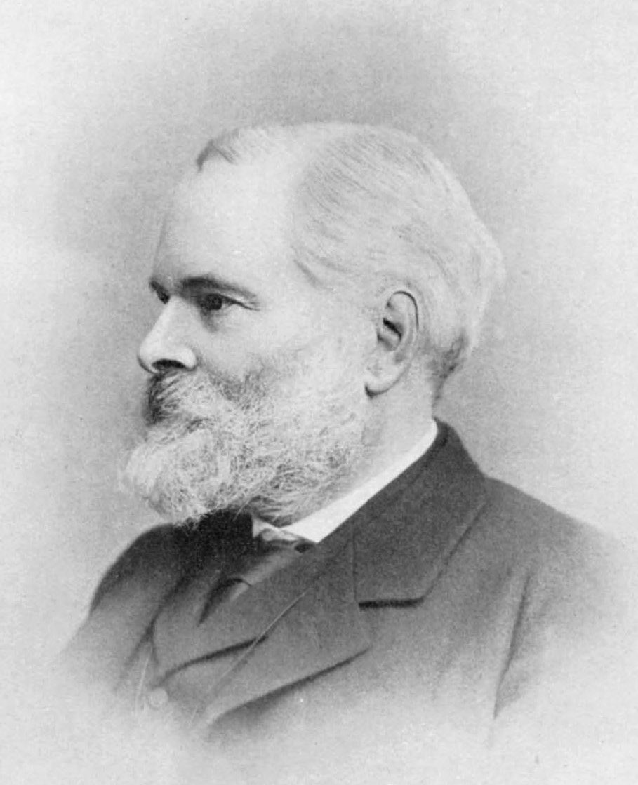 Photograph of Alexander Crum Brown (1838 – 1922), the Scottish chemist